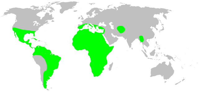 Cyrtaucheniidae habitat distribution, drawn after Platnick: World Spider Catalog 7.0. This is not a precise rendering of the distribution! If you have better information, please replace this map, or send me the info, so i will redraw it.